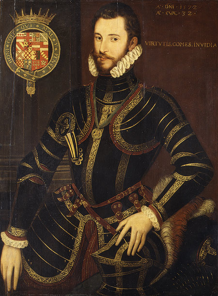 Walter Devereux (1539–1576), First Earl of Essex, in tilting armor. The Metropolitan Museum of Art (New York).